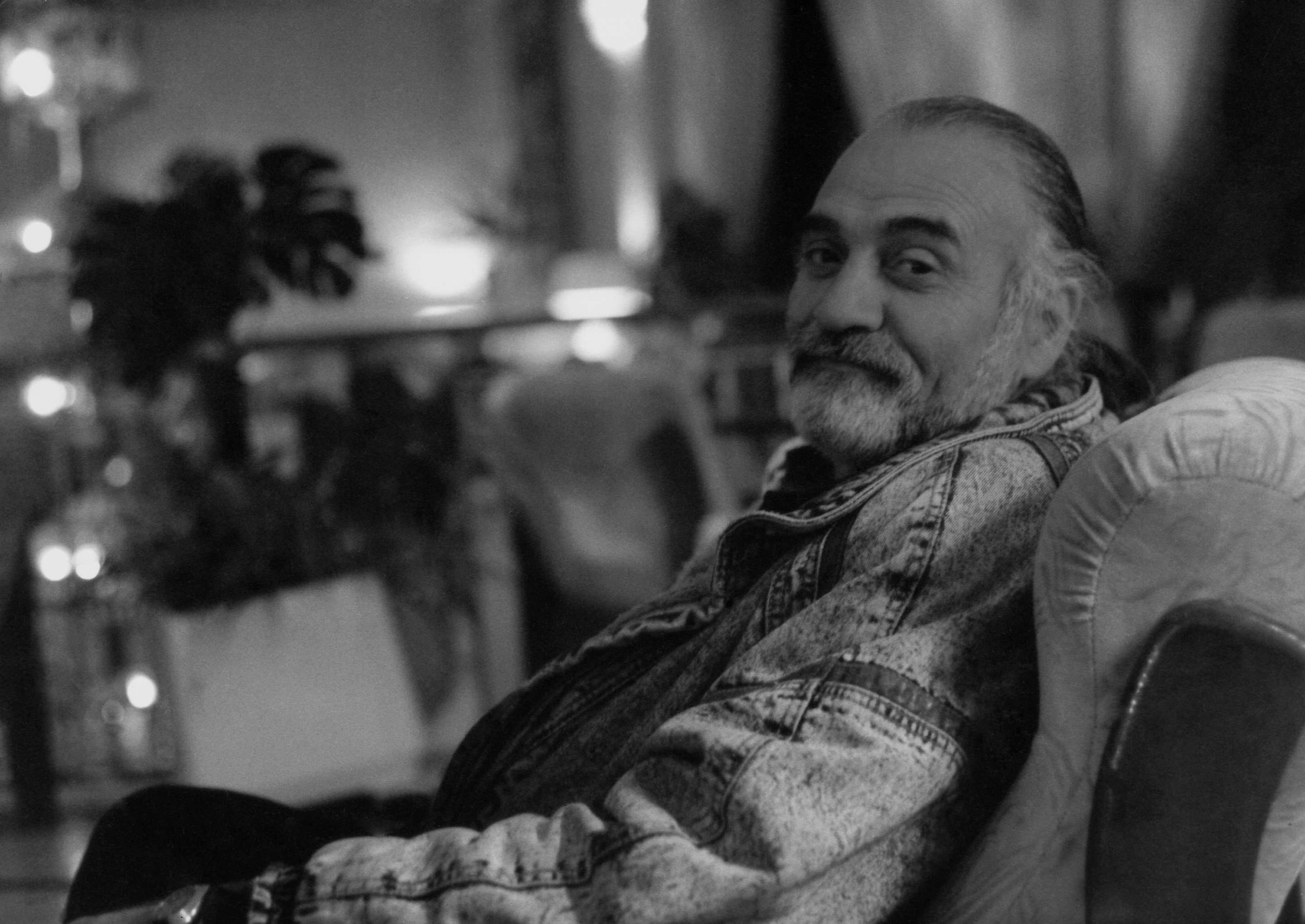 Iraj Safdari Makup Artist